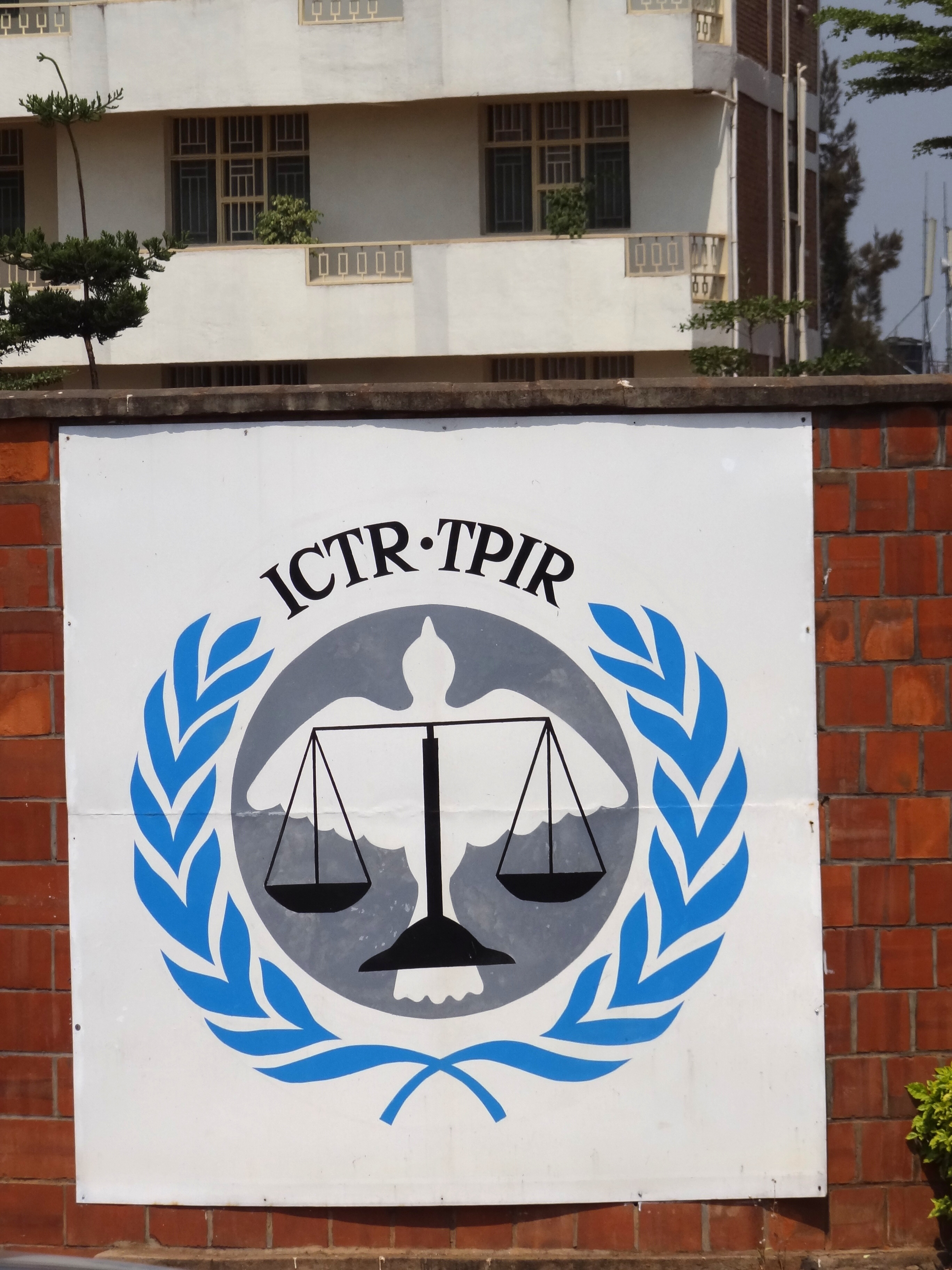 Plaque of International Criminal Tribunal for Rwanda-ICTR - Kimironko District - Kigali - Rwanda